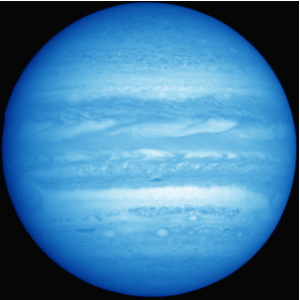 Illustration of the planet Polyphemus from the film Avatar, based on a photograph of the planet Jupiter